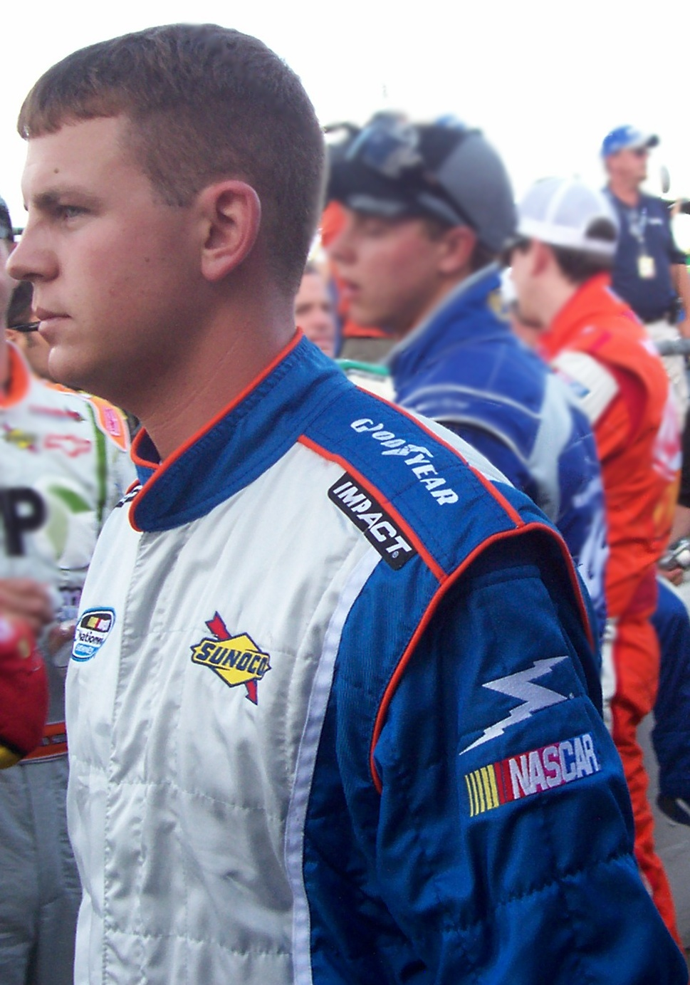 NASCAR Nationwide Series driver Chad Blount at the 2009 race at the Milwaukee Mile.